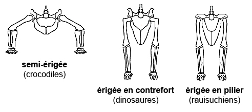 The 3 main types of hip joint in tetrapods